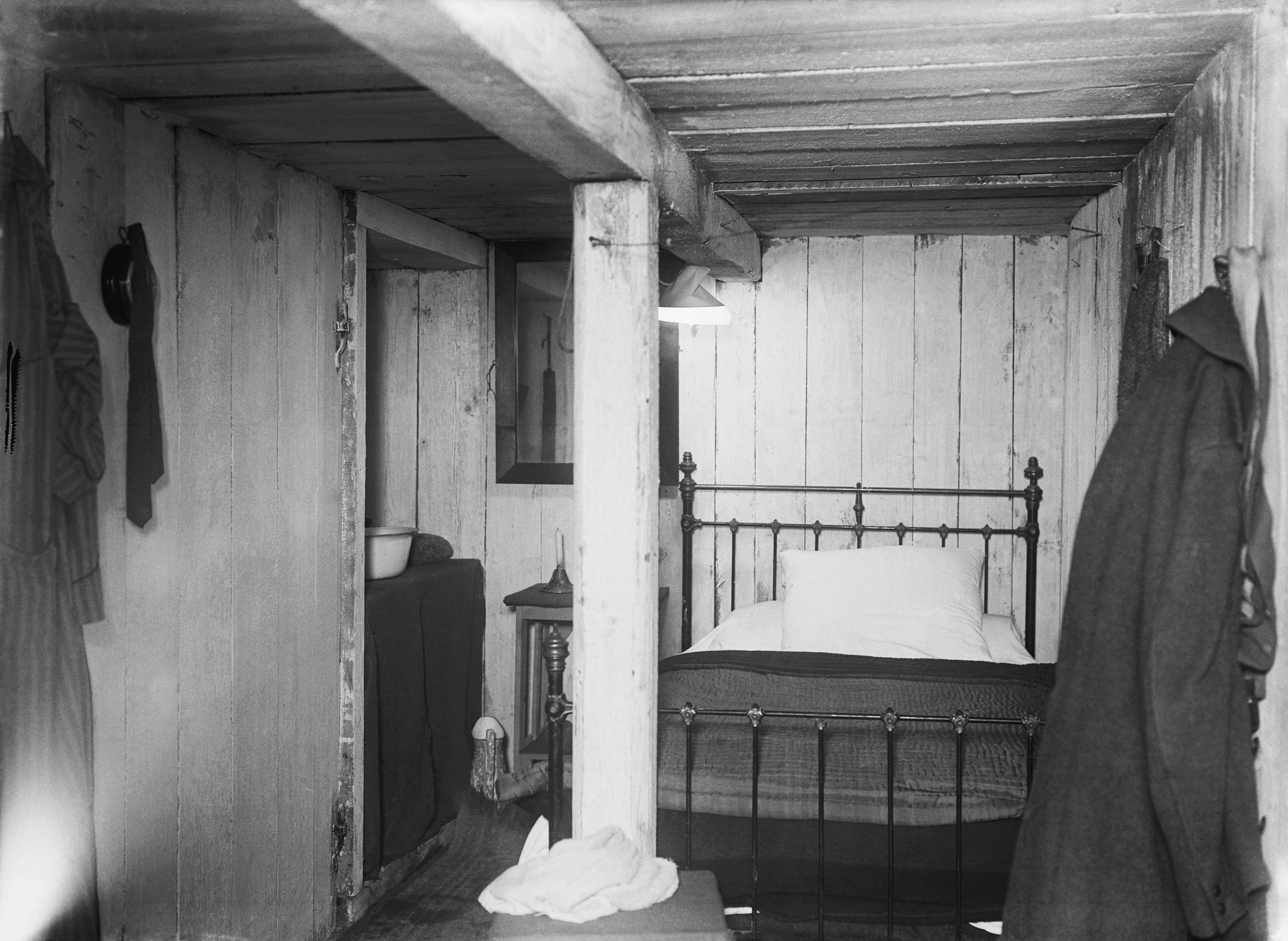 IWM caption : "THE BATTLE OF THE SOMME 1 JULY - 18 NOVEMBER 1916. Interior of a German underground dugout complete with a brass bed at Fricourt. British troops were astonished at the comfort of German living conditions".